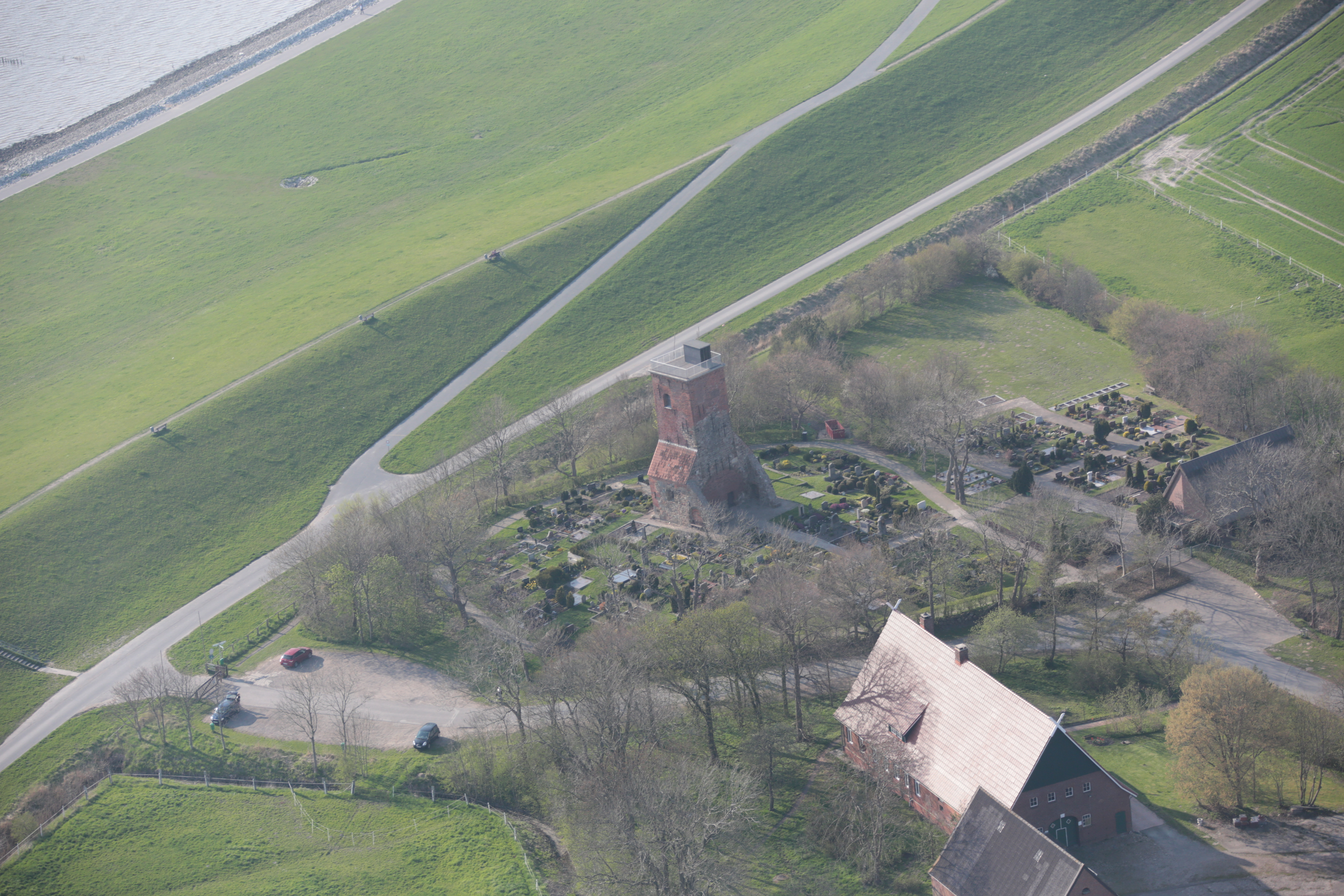 Fotoflug von Nordholz-Spieka nach Oldenburg und Papenburg This photo was taken by Alchemist-hp. If you use one of my photos, an email (account needed) or a message or direct to: my email account would be greatly appreciated. Please note the license terms. Other licensing terms can get discussed, too. This file is copyrighted and has been released under a license which is incompatible with Facebook's licensing terms. It is not permitted to upload this file to Facebook.